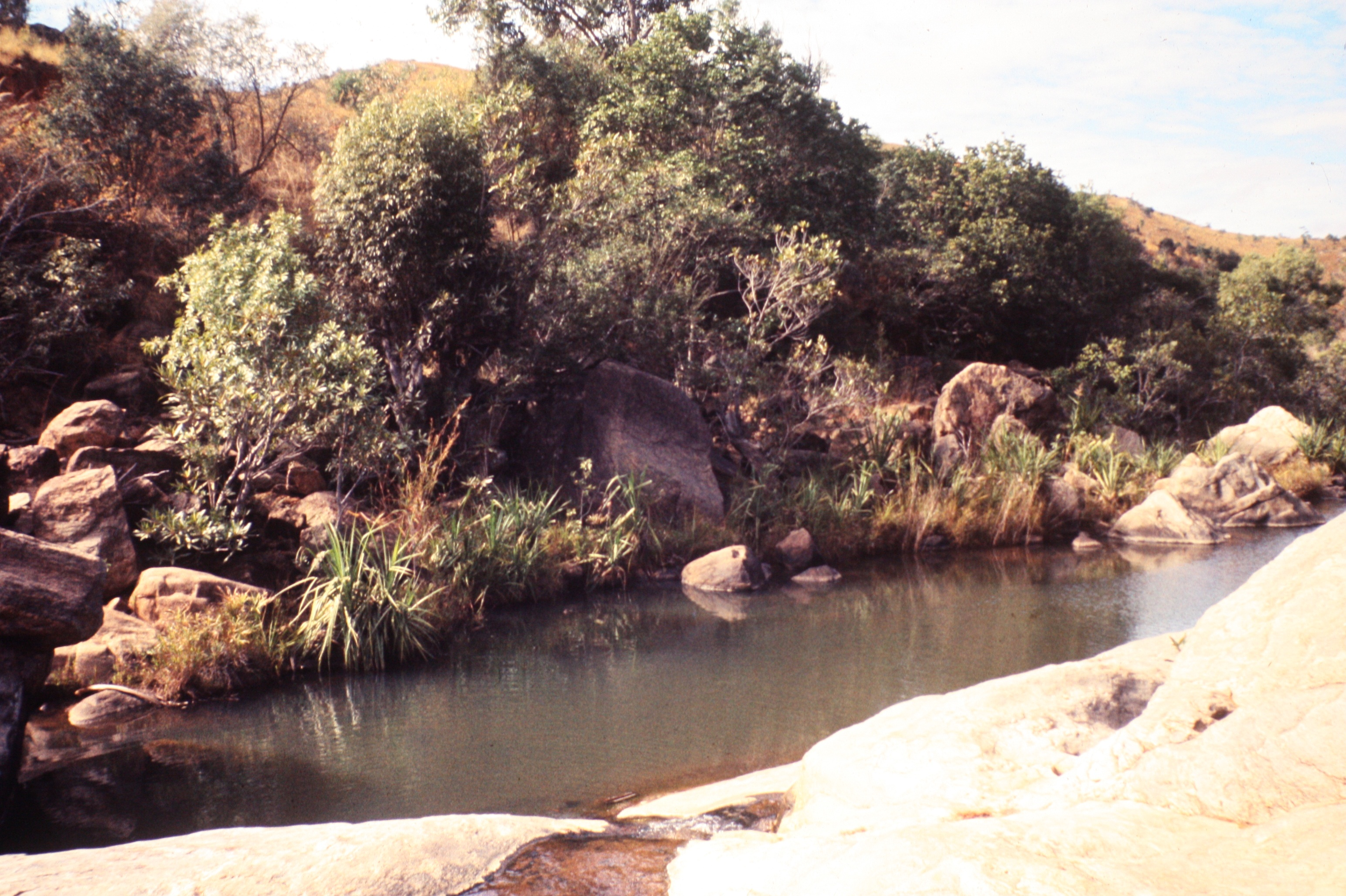 Taken in Madagascar in the mid-1970's. Ihosy.